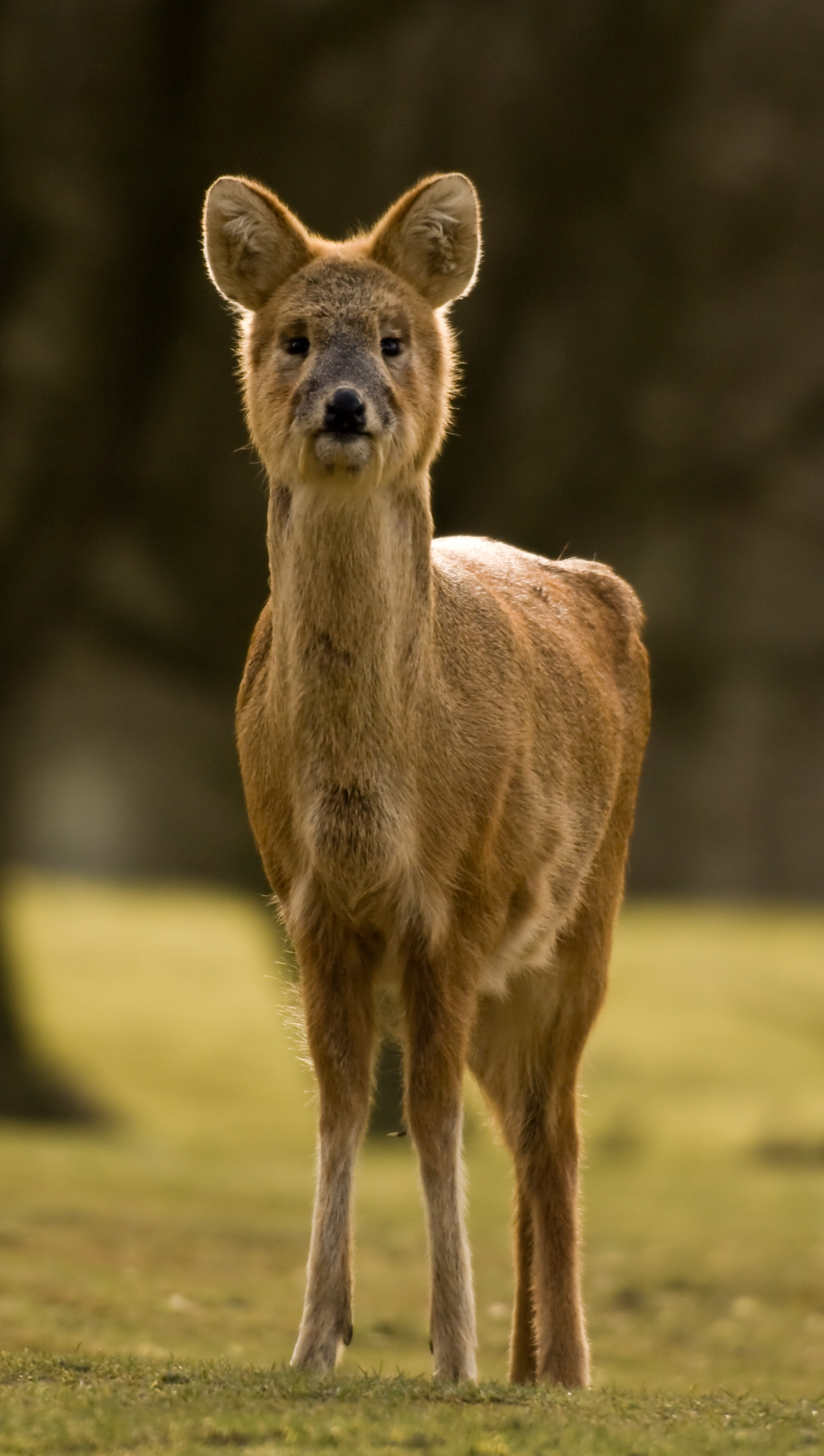 Chinese Water Deer (Hydropotes inermis inermis) at the Whipsnade Zoo, Dagnall, England.